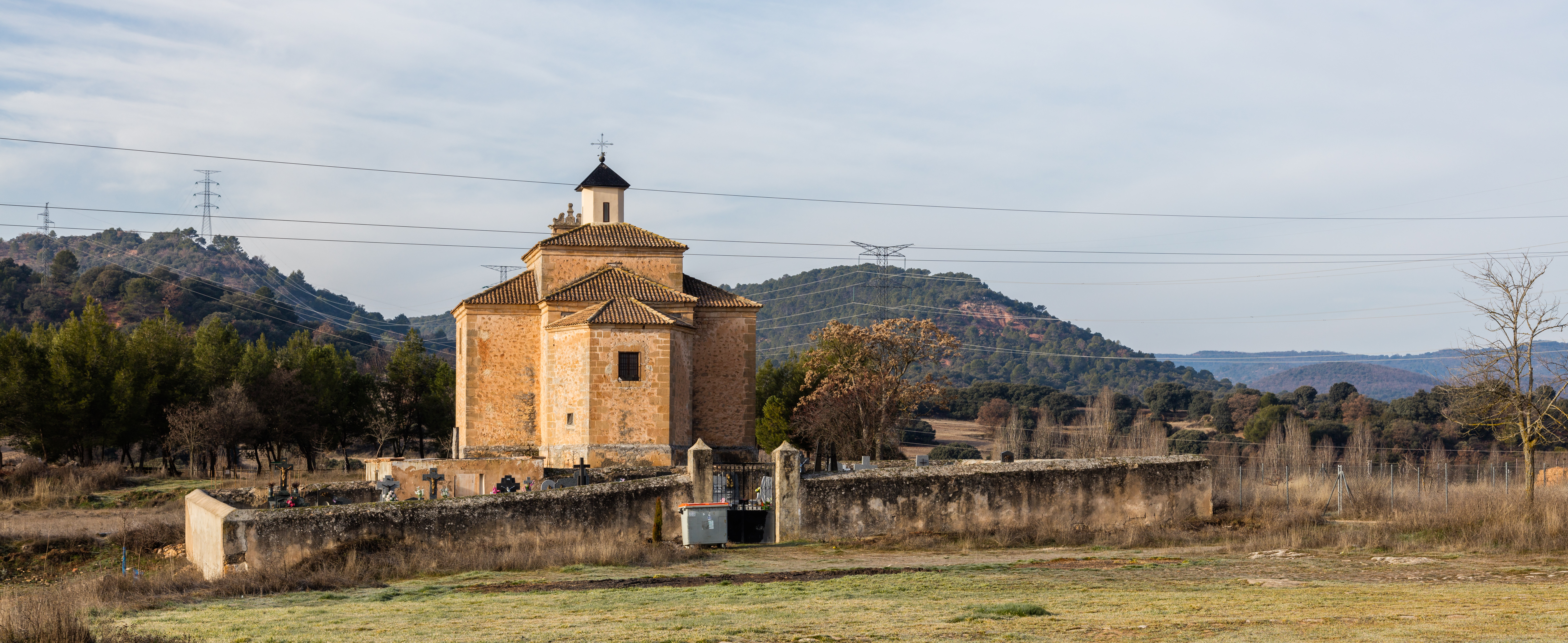 Hermitage of the Conception, Gualda, Guadalajara, Spain